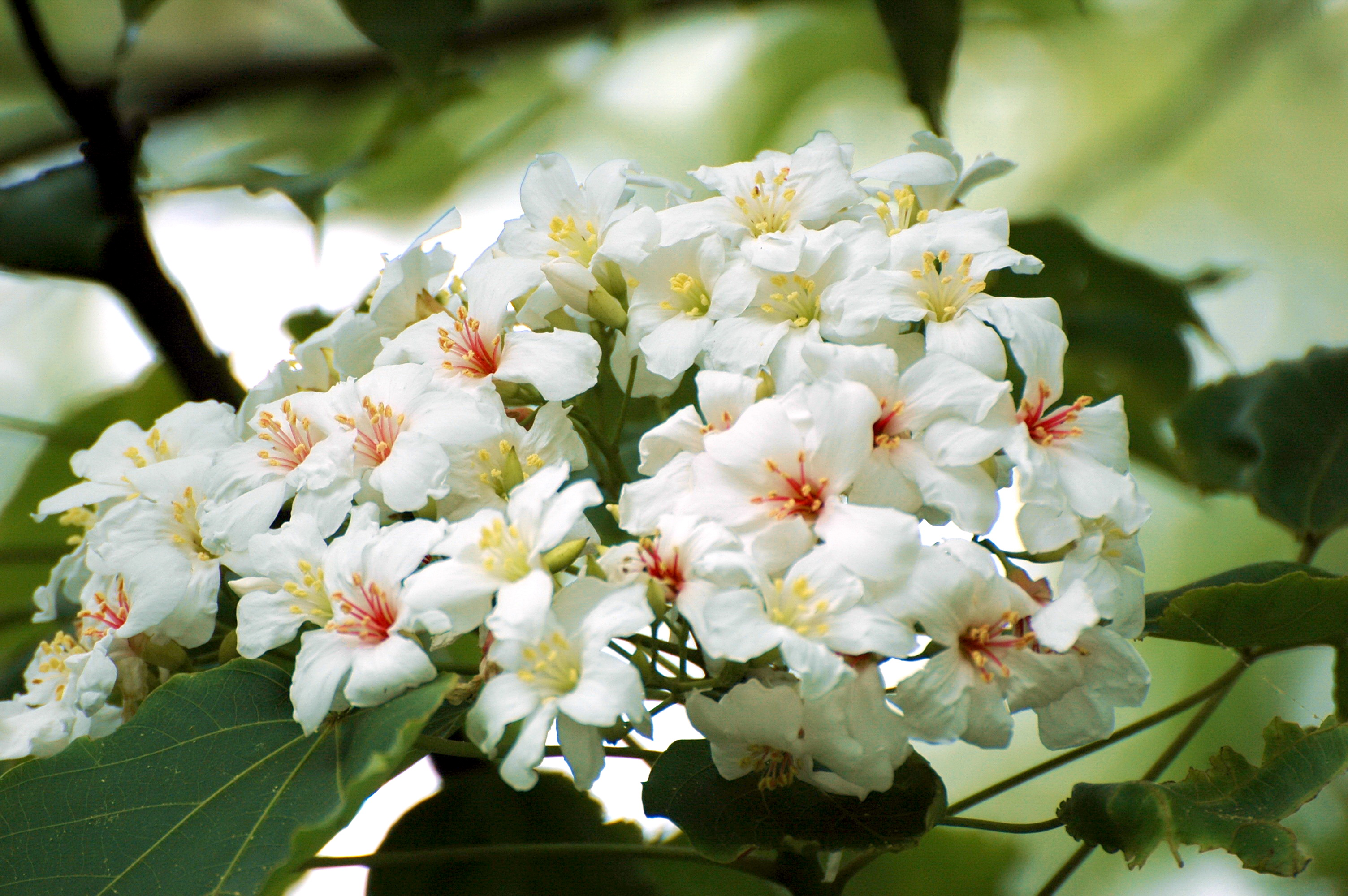 Vernicia fordii (Tong-oil Tree)